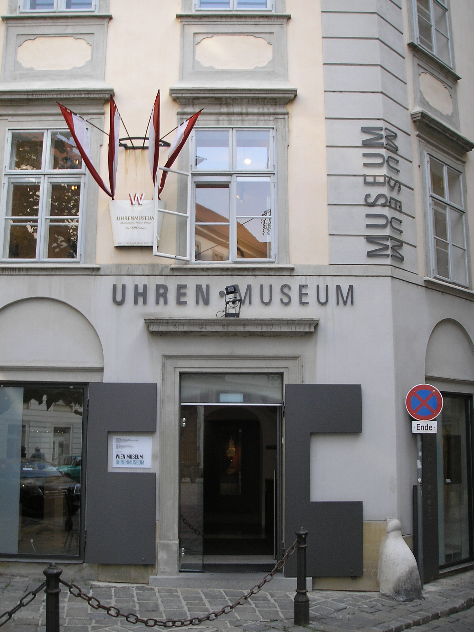 The Uhrenmuseum (Clock museum) in the Palais Obizzi in Vienna.